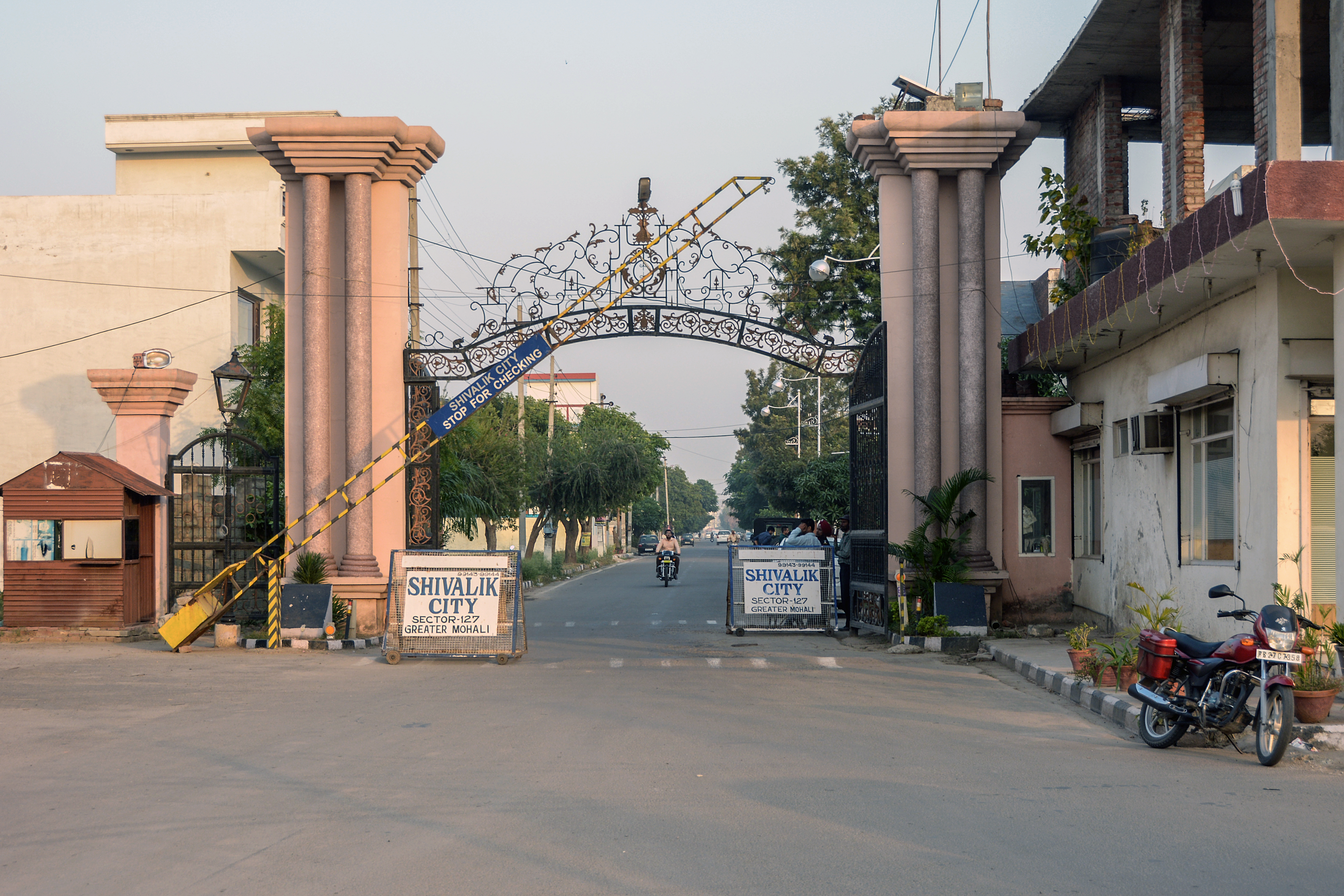 Latest from Shivalik city Kharar Landran Road, Mohali